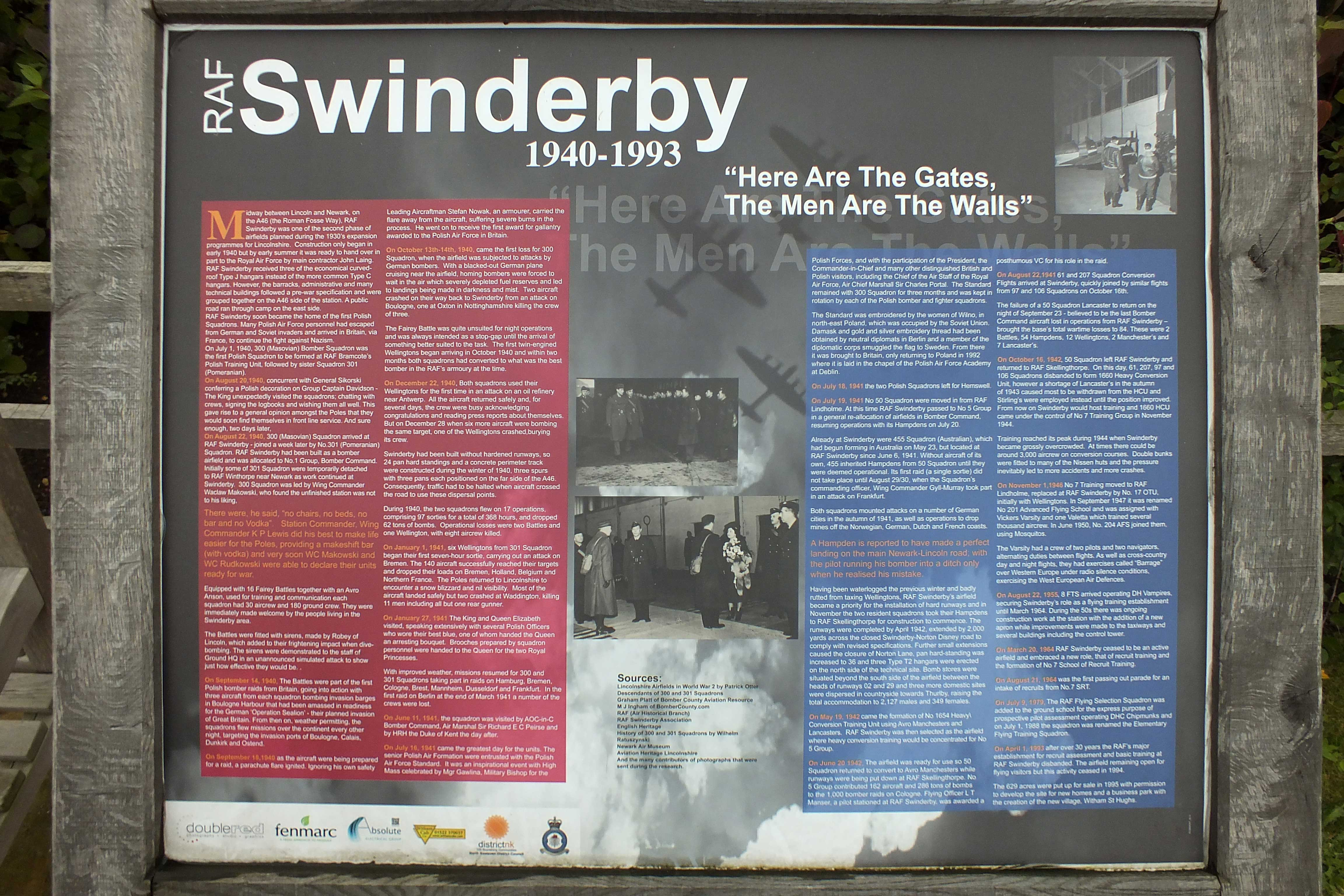 Memorial board giving information of the history of RAF Swinderby. It stands outside the village hall, near the site of former RAF buildings.